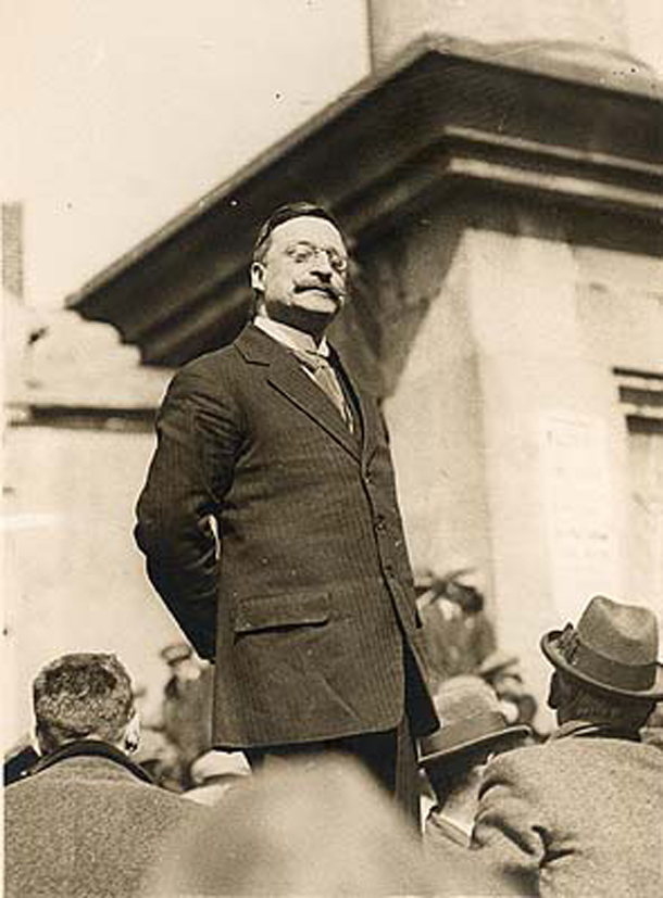 July 10, 1922 Arthur Griffith, journalist and politician. He died just one month after this photo was taken. Date: 10 July 1922